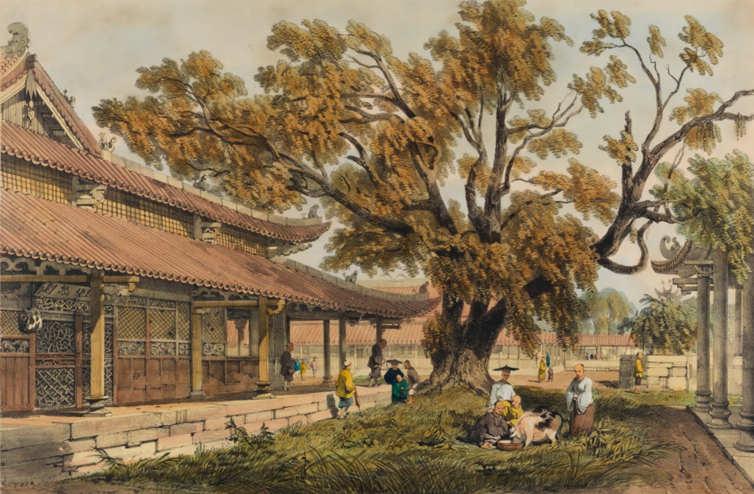 The Sea-screen Temple at Honam, Canton (i.e., Hoi Tong Monasatery, Honan Island, Guangzhou).